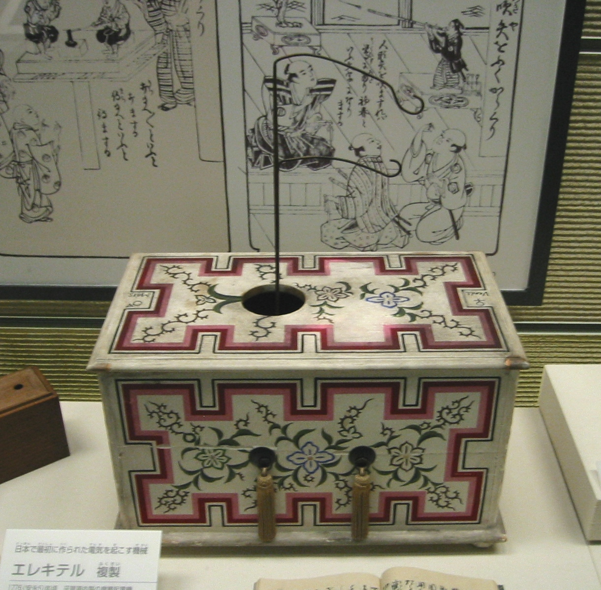 Japan's first electricity generator (1776). Tokyo National Science Museum. Personal photograph.